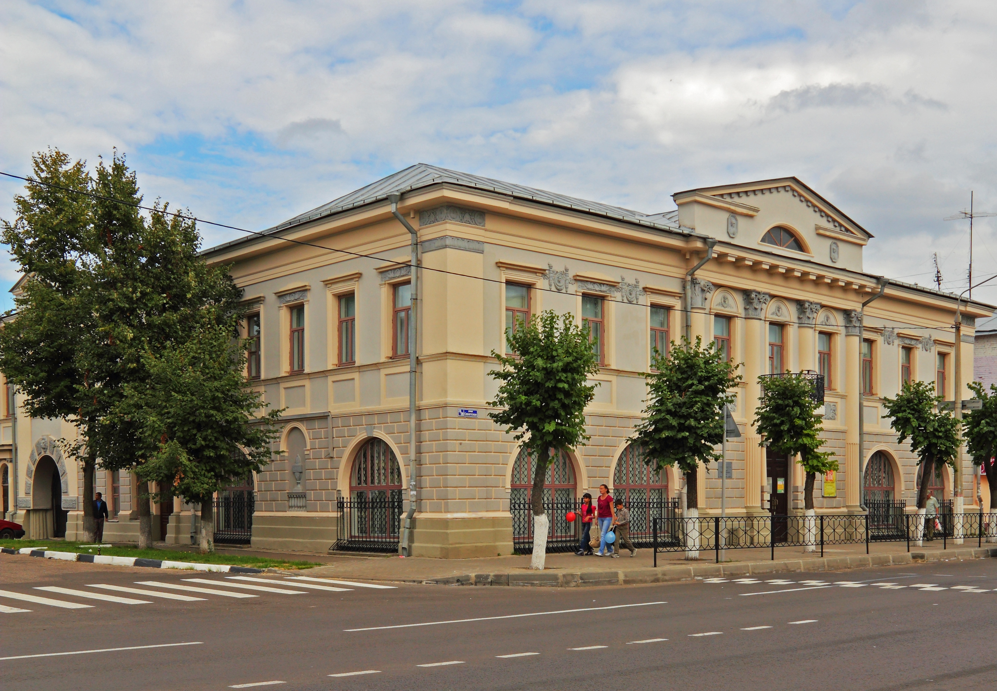 Yegorievsk, Moscow Oblast, Russia. Listed buildings in the old part of the town.